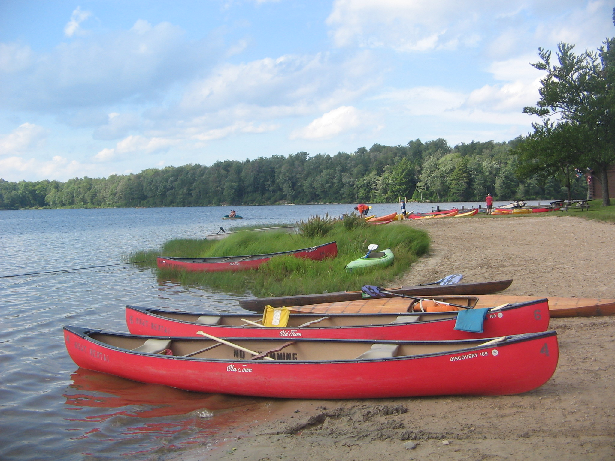 Canoes and other boats at Beach 2 on Lake Jean in Ricketts Glen State Park, Fairmount Township, Luzerne County, Pennsylvania, USA.